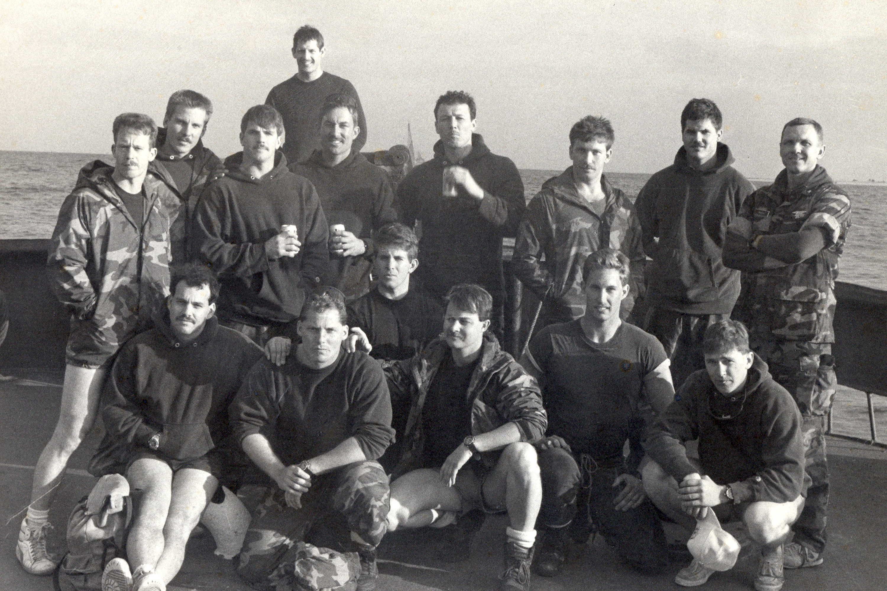 PANAMA (Jan. 1990) In this undated file photo, members of Seal Team 4 pose for a group photo before Operation Just Cause. (U.S. Navy photo/Released)